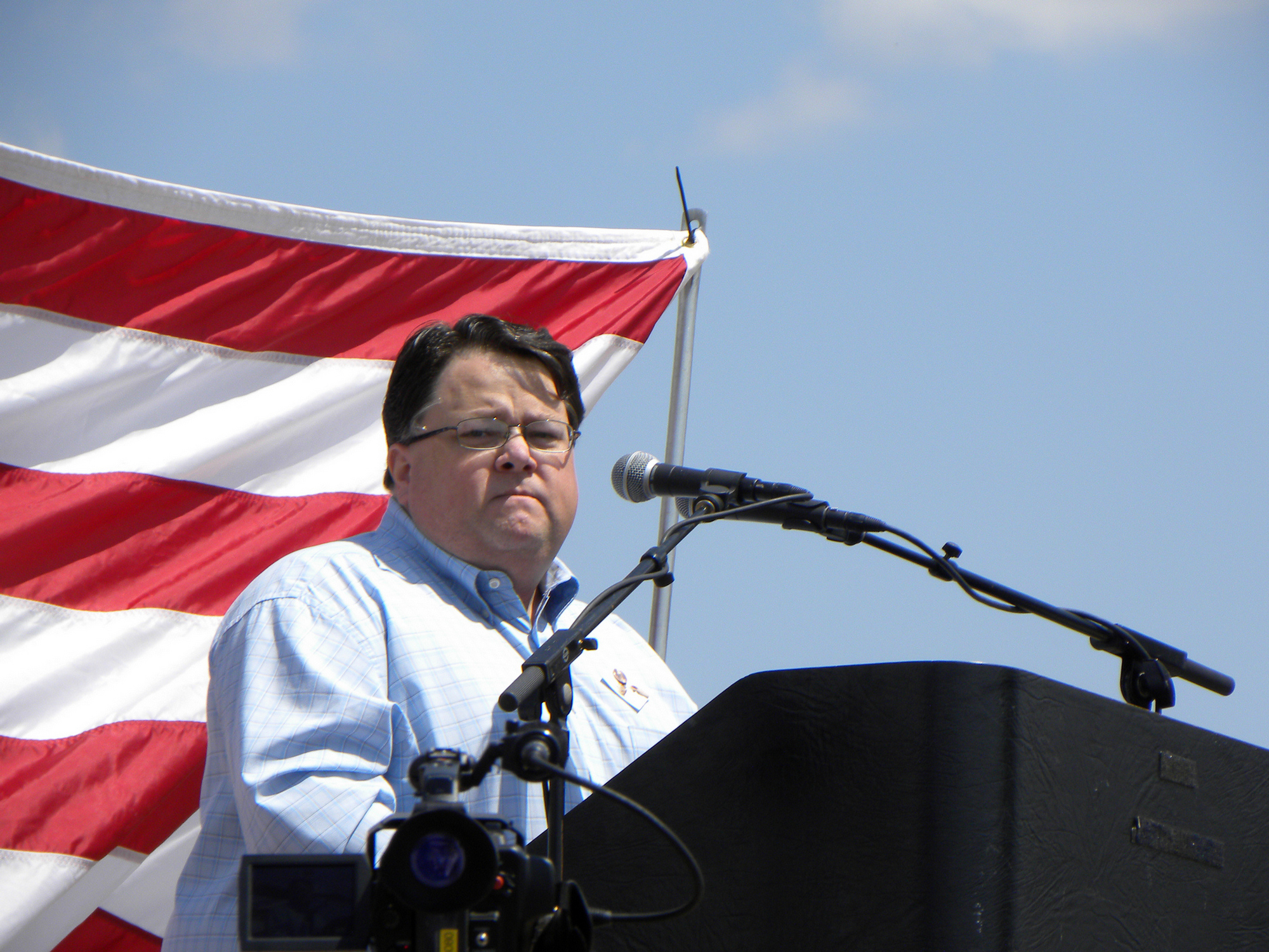 St. Paul, Minnesota May 7, 2011 Minnesota Republican Party chair Tony Sutton speaks at the annual Tax Cut Rally at the Minnesota state capitol building. The conservative protesters say they want lower taxes and smaller government. This event was sponsored by: Republican Party of Minnesota, Fox News Radio KTLK, Minnesota Majority 501(c)4, Taxpayer's League of Minnesota 501(c)4 2011-05-07 This is licensed under a Creative Commons Attribution License.